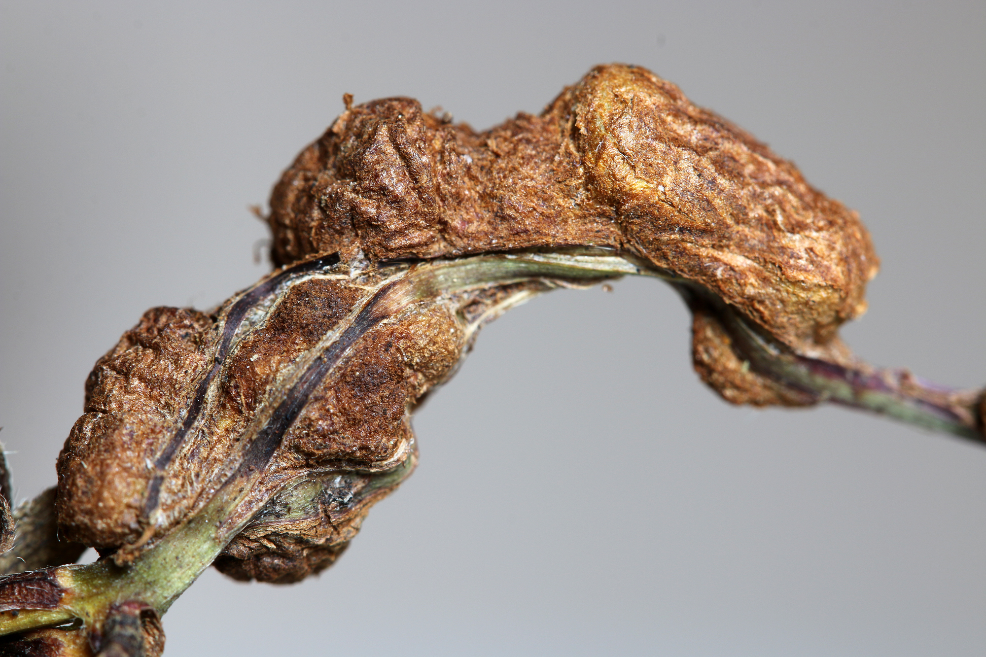 Xestophanes potentillae, Gallwespe auf Potentilla reptans